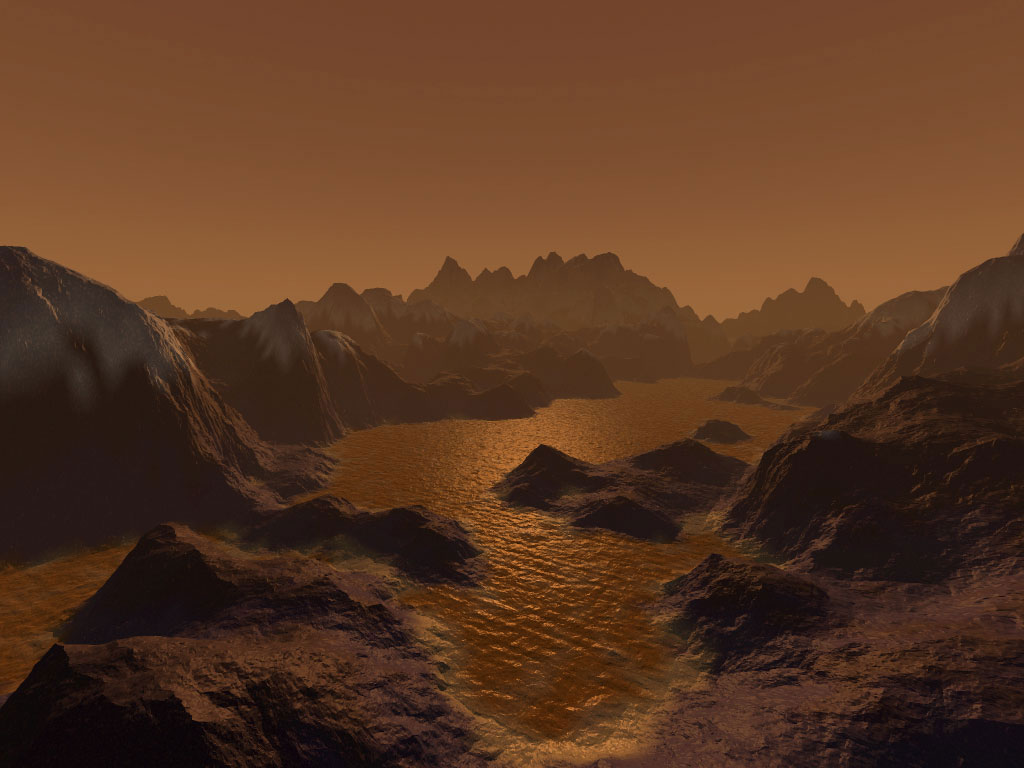 An artist's imagination of hydrocarbon pools, icy and rocky terrain on the surface of Saturn's largest moon Titan.